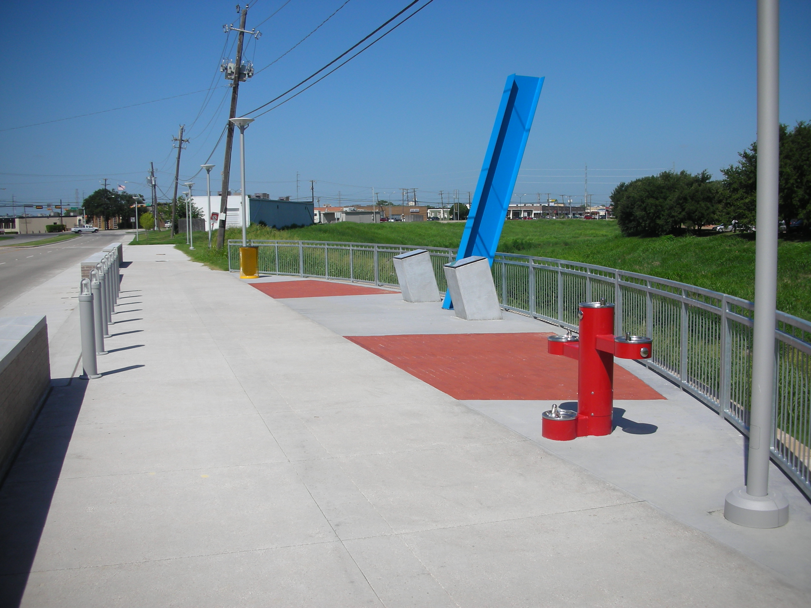 Trinity Strand Trail Turtle Creek Plaza